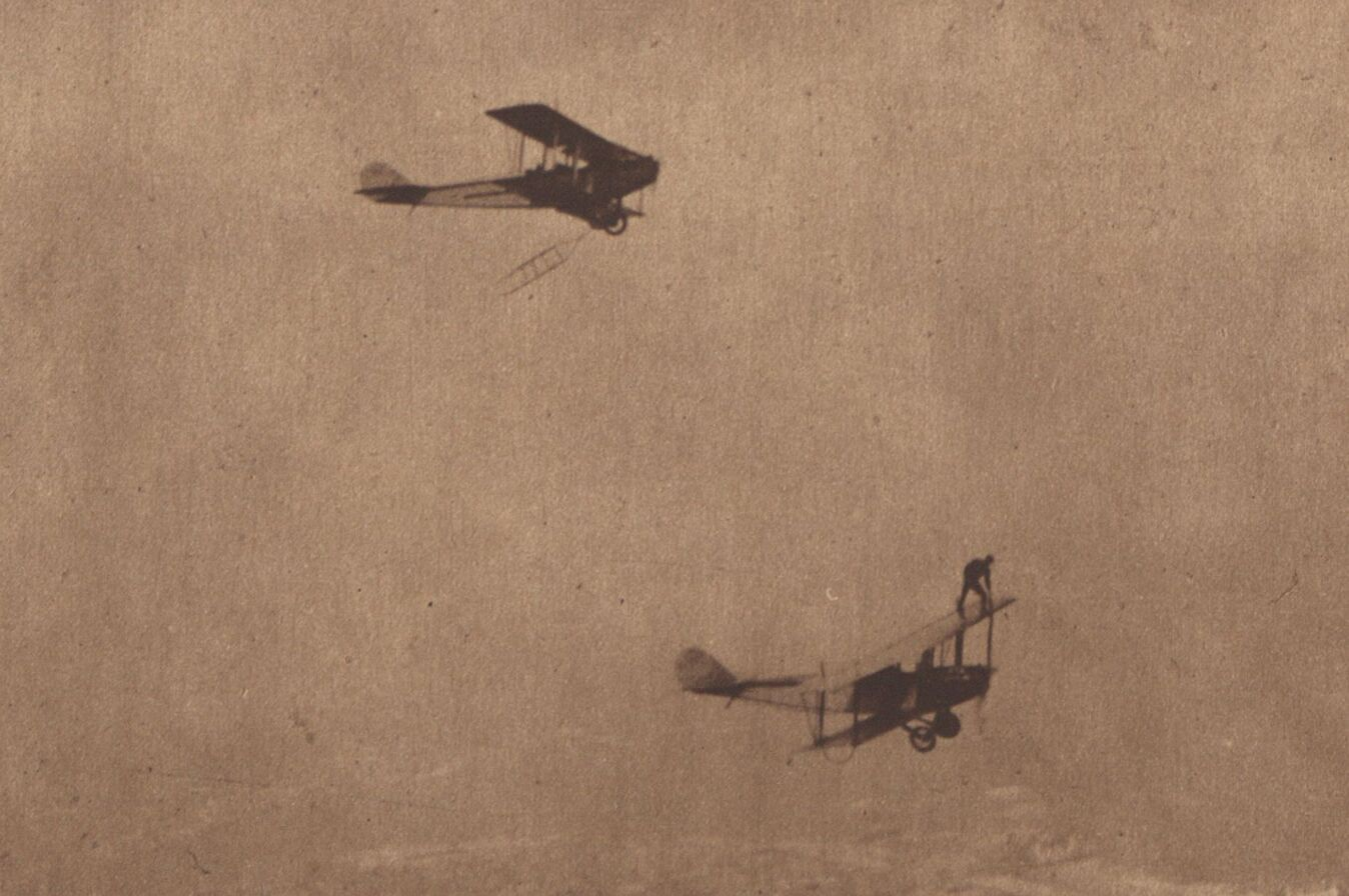 New-York Tribune Jun 1 1919 - In Atlantic City Ormer Locklear of Locklear's Flying Circus clings to one plane waiting for a 2nd plane trailing a rope ladder. When ready Locklear will then jump from one plane to another